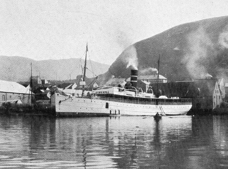 Steamship "Oihonna" in den Harbour of Hammerfest, Norway, 1902